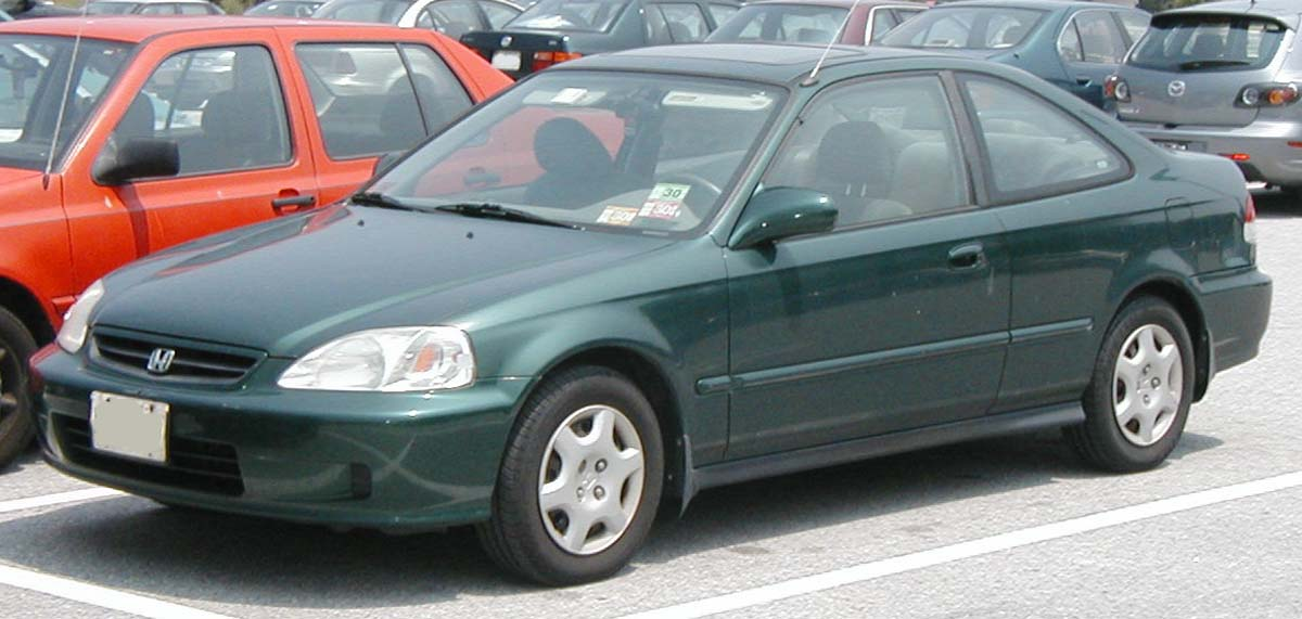 1996-2000 Honda Civic coupe photographed in USA.